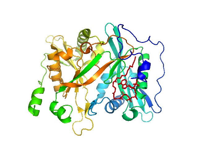 The Crystal Structure of one subunit of the dimer human type-I N-myristoyltransferase with bound myristoyl-CoA. Myristoyl-CoA is shown in red. PDB ID: 3IU1 rendered using the MacPyMOL Molecular Graphics System, Version 1.6.0.0 Schrödinger, LLC. (